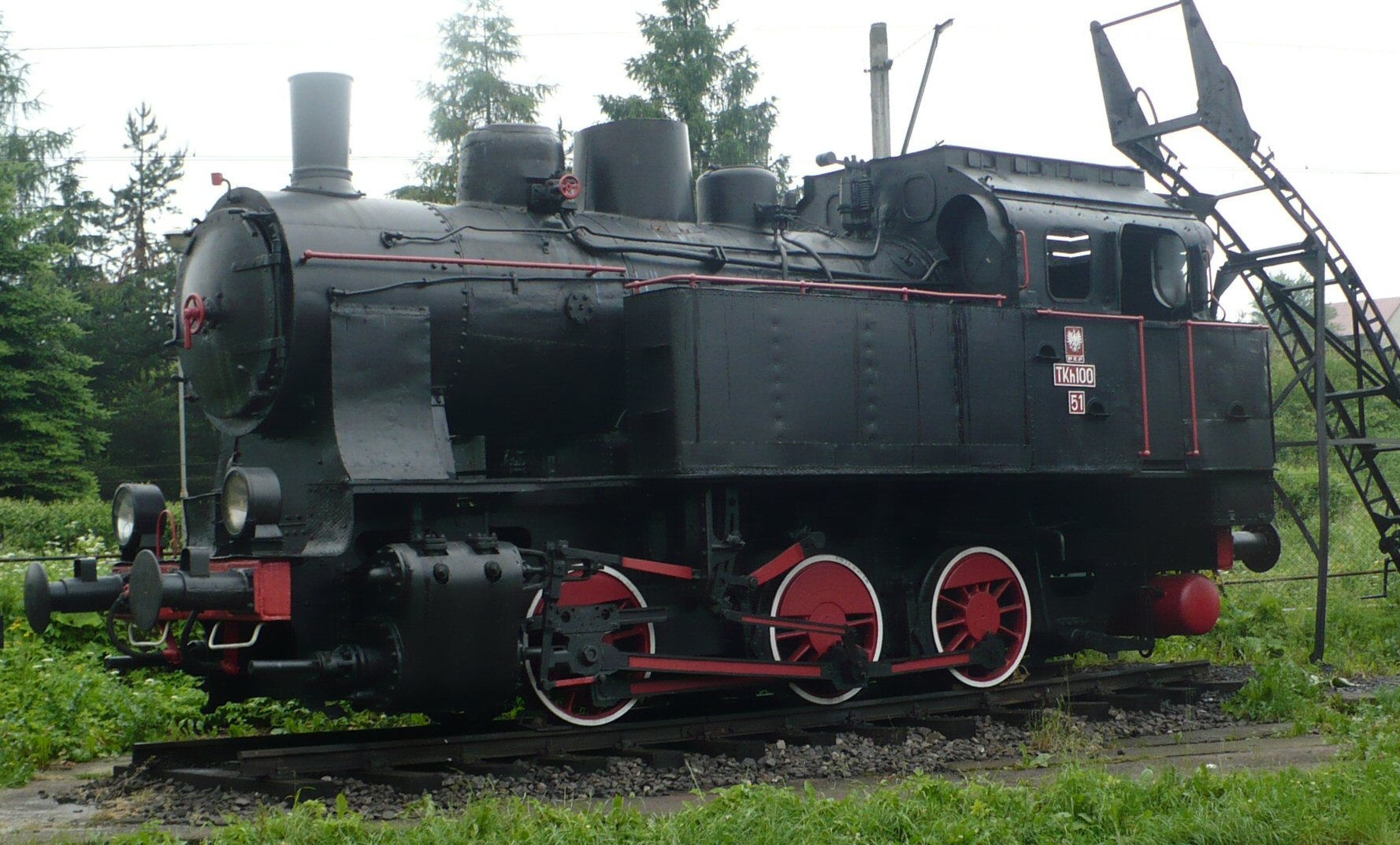 Tank locomotive TKh100-51 (Orenstein & Koppel AG, Berlin-Drewitz, 1928, bu.no. 11688). The railway museum in Chabówka, Poland